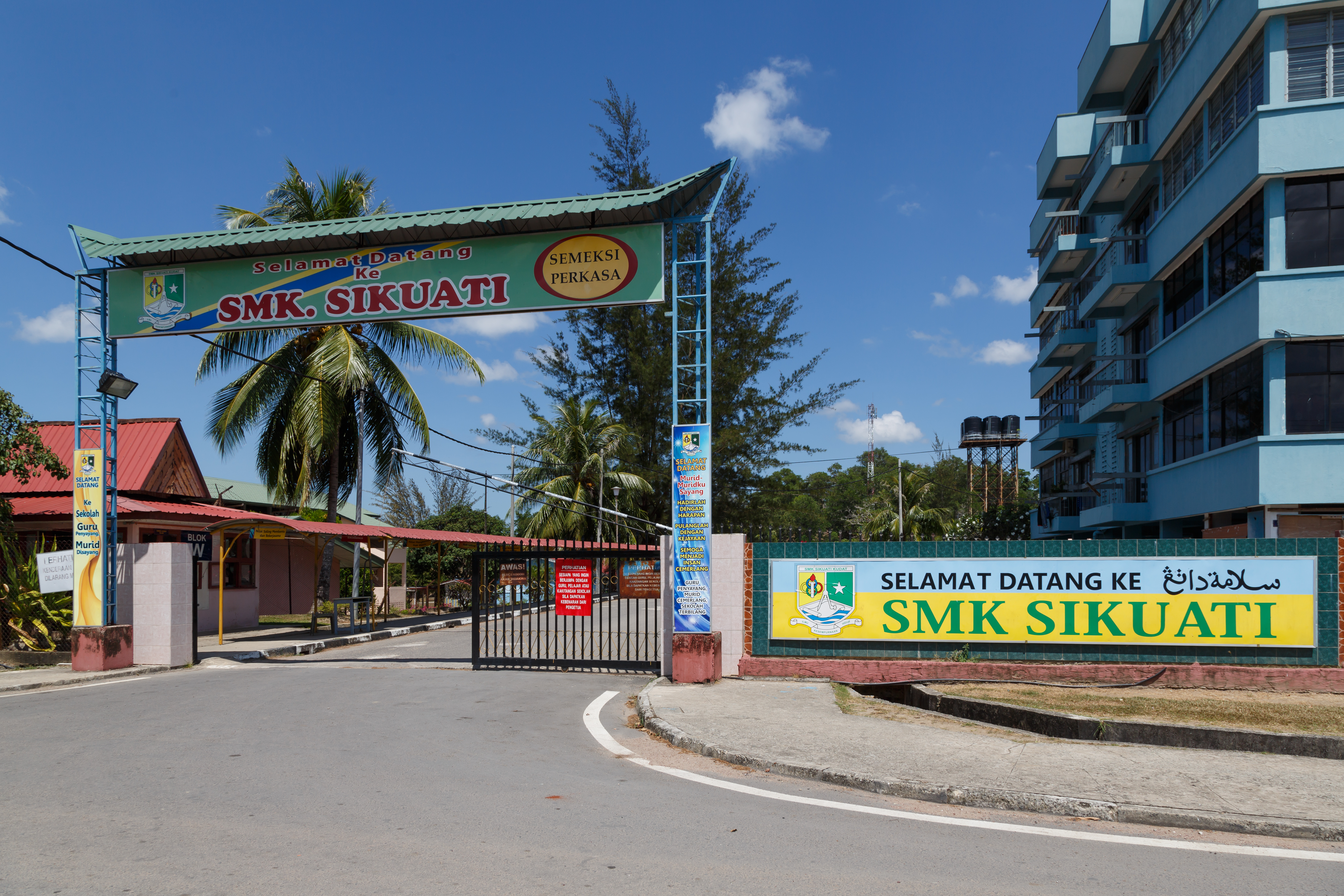 Sikuati, Sabah: SMK Sikuati, a secondary school in Sabah